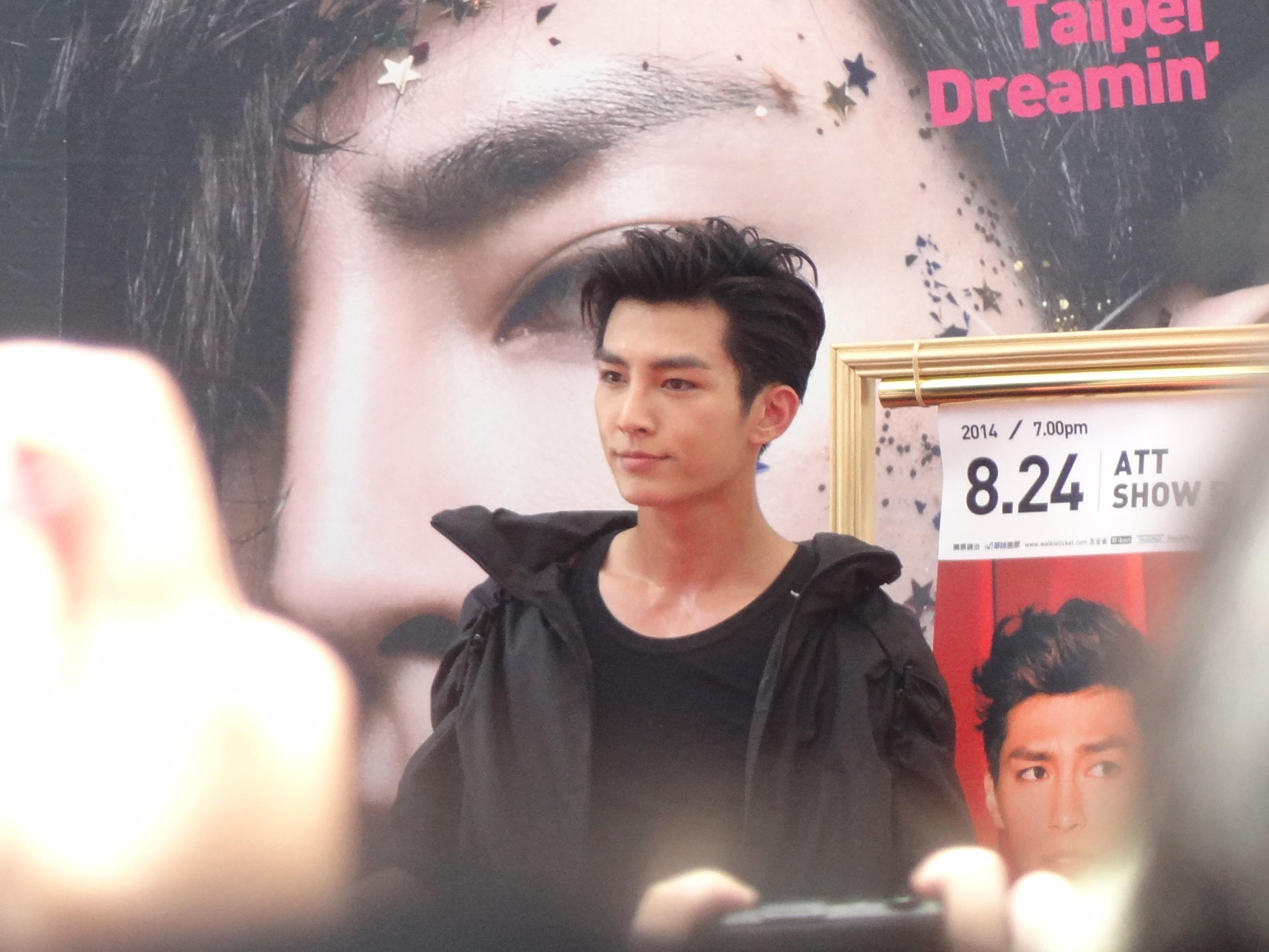 Cut(album)